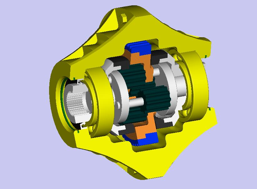 Spur-gear differential with internal satellite cage